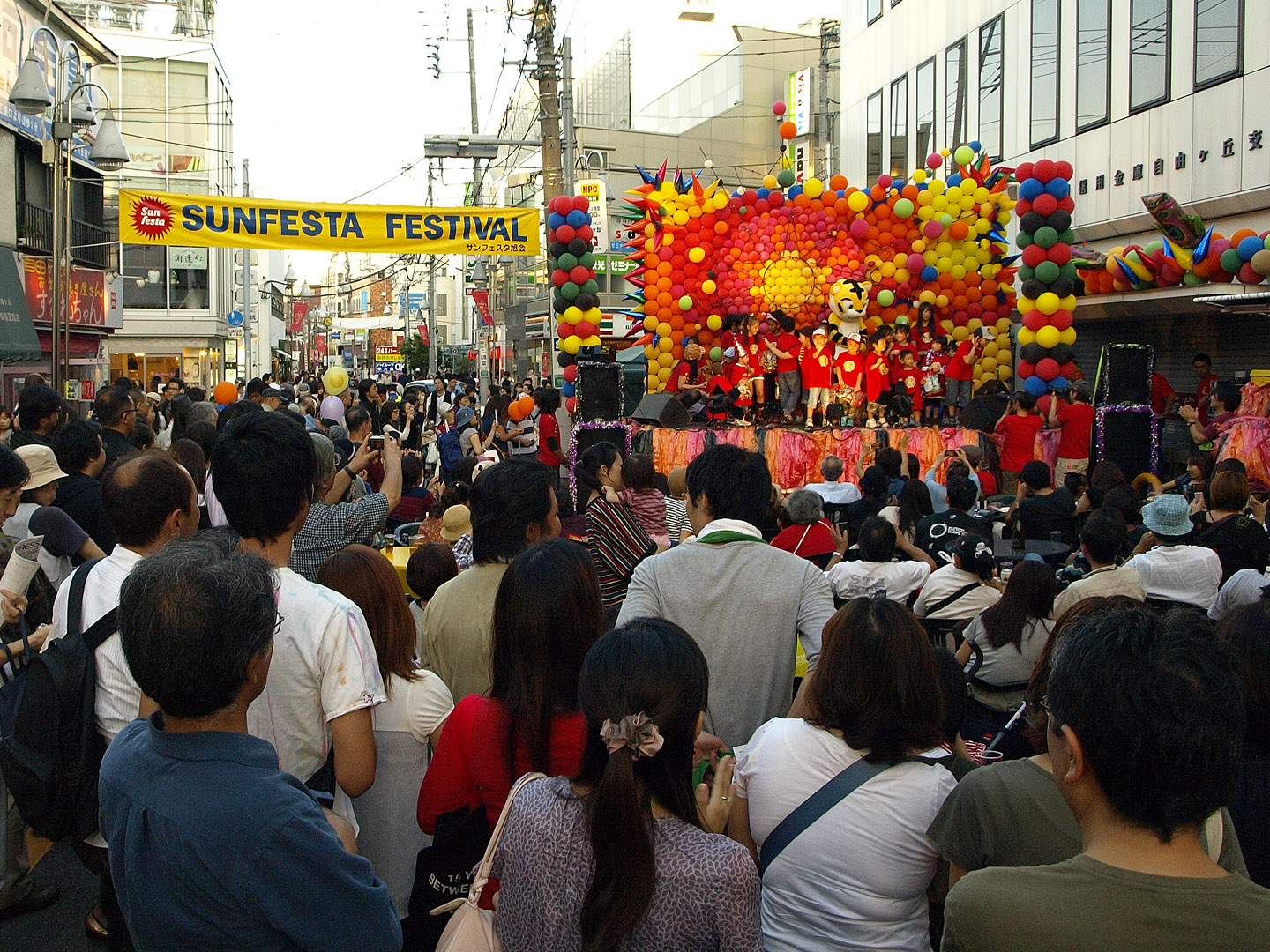 The kids dance competition at the Jiyugaoka Megami Festival 2010, Jiyugaoka, Meguro, Tokyo, Japan.